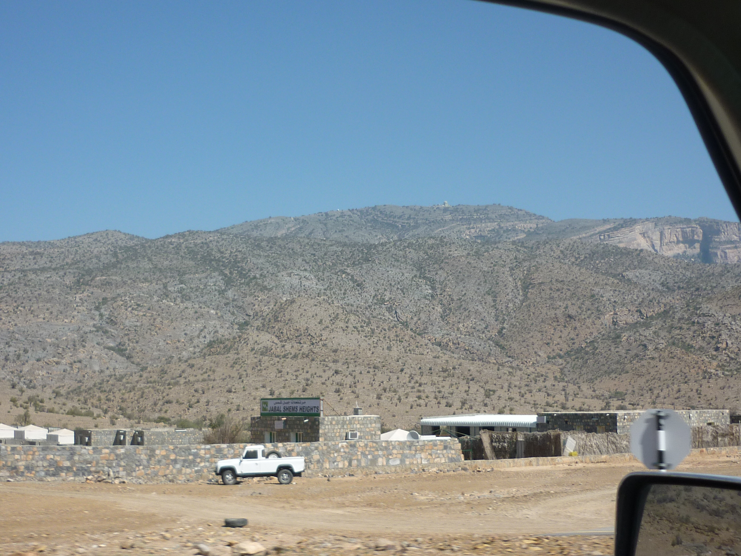 Top of the Jabal Shams